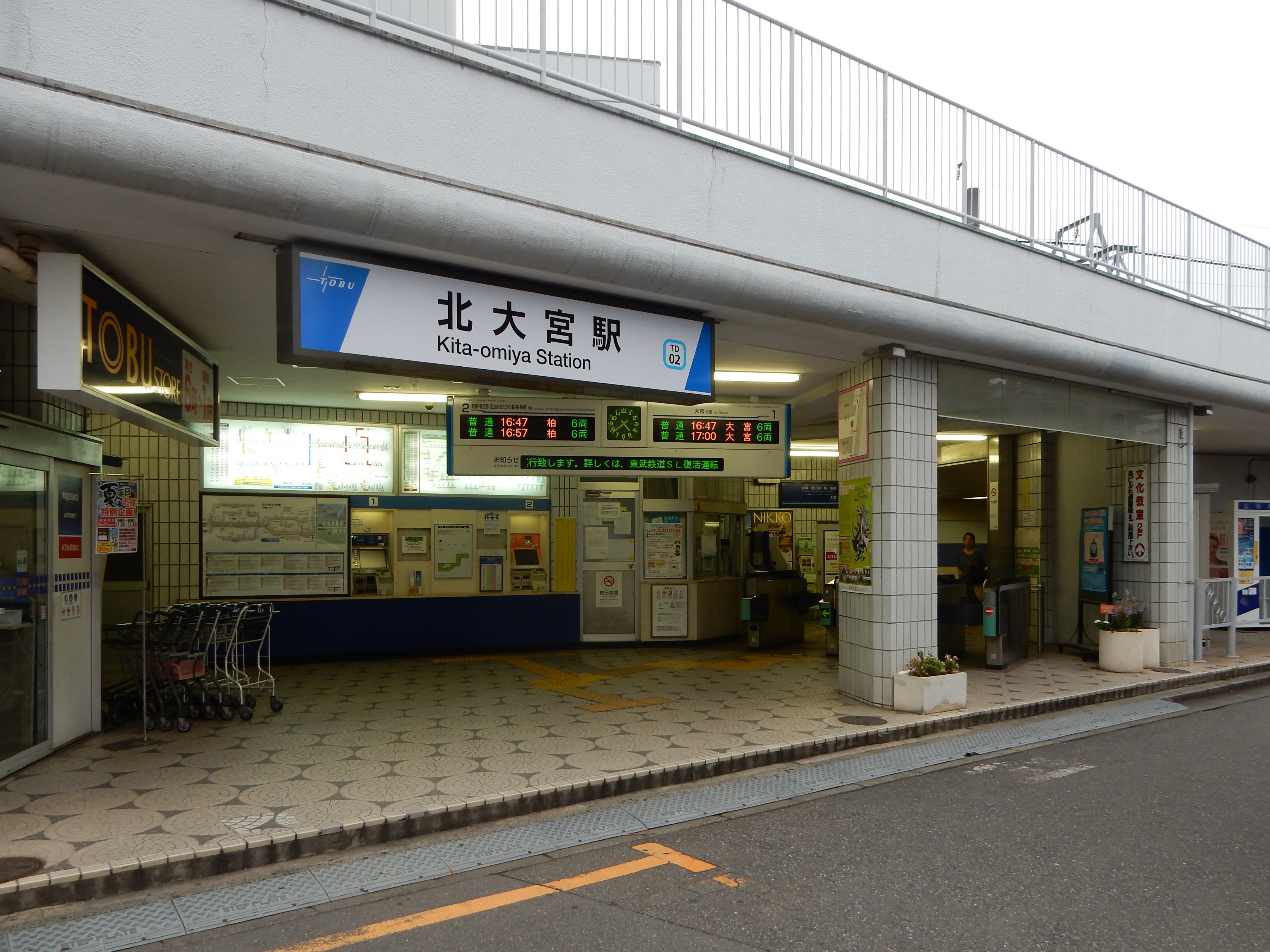 Kita-omiya Station, located at 3-285 Dote-cho, Omiya-ku, Saitama, Saitama Prefecture, Japan